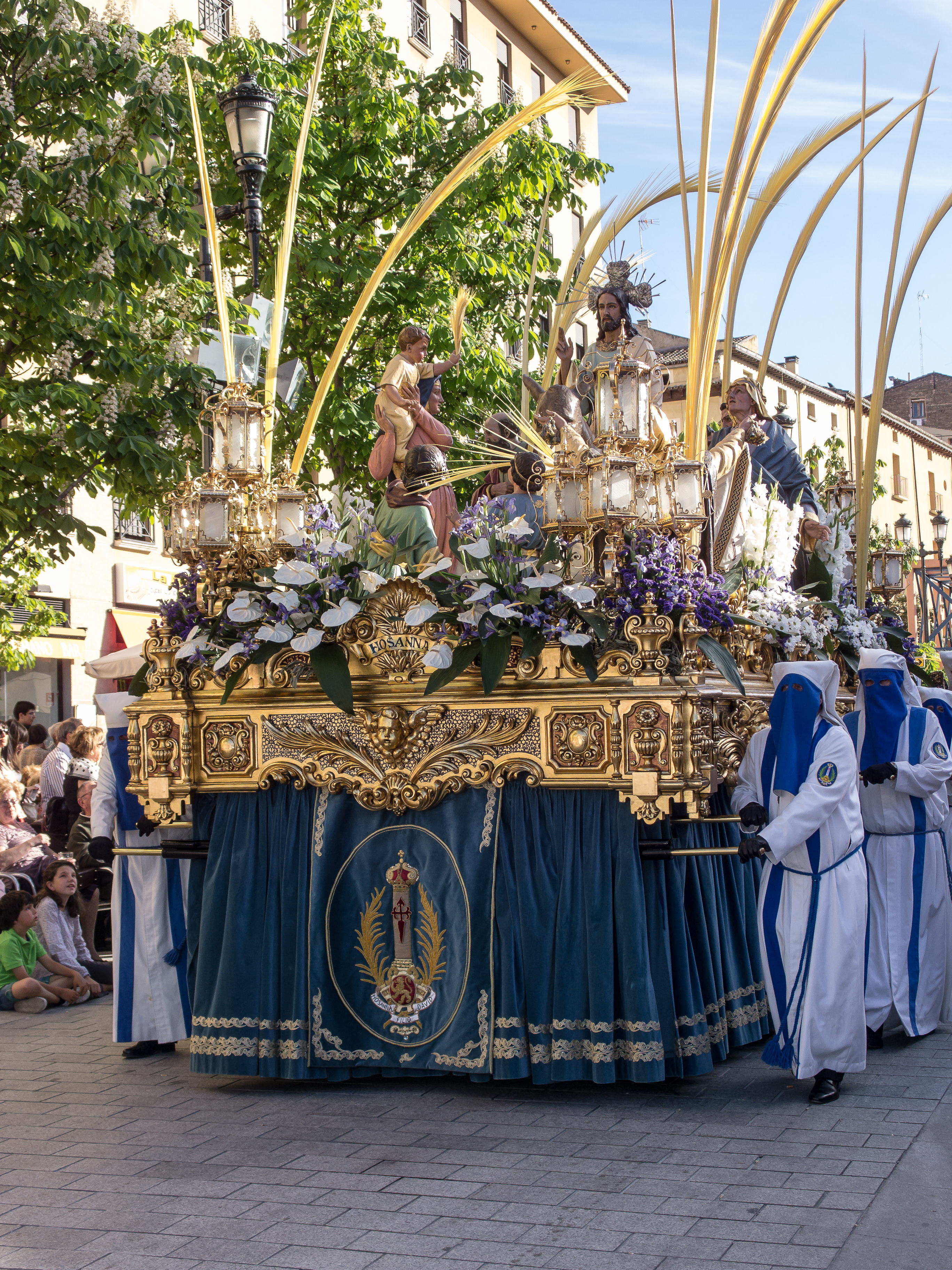 OLYMPUS DIGITAL CAMERA This is a photography of a Folklore festival in Spain (Wikidata id Q9075892).